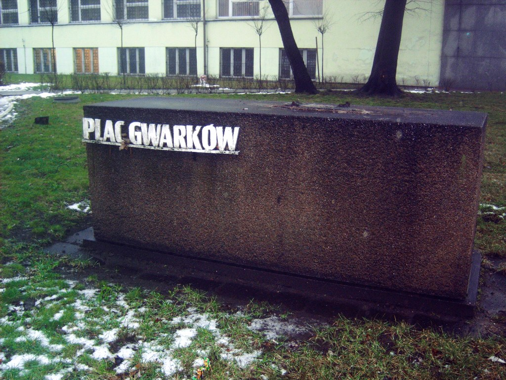 Gwarków Square in Katowice